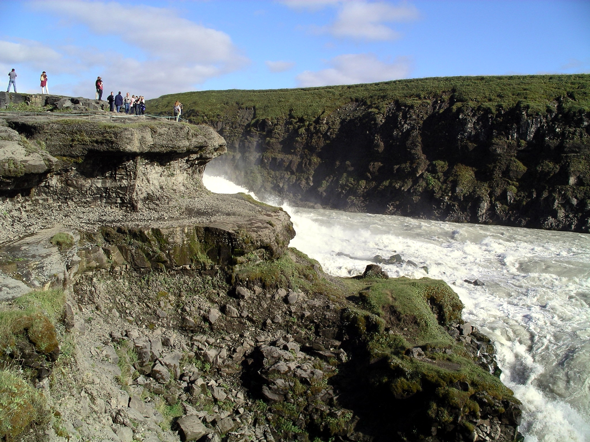 Waterfall in Gullfoss.